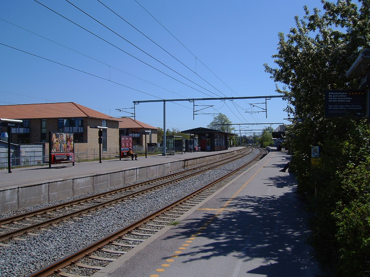 A picture of the Danish Raill Station: Allerød